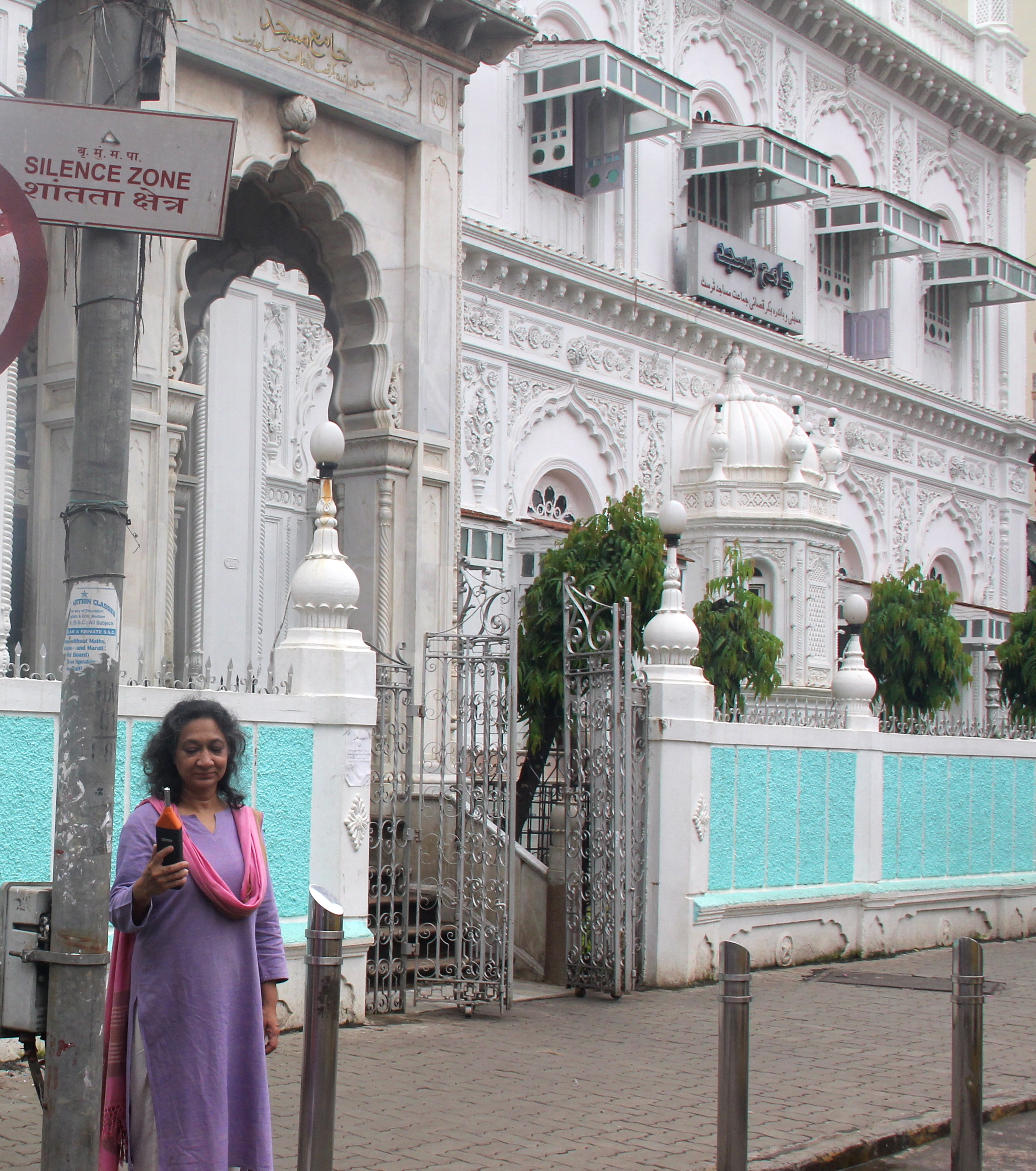 Silence Zones were notified after public interest litigation by Awaaz Foundation but religious places were left out of the initial notification. Religious places were notified after a subsequent Court order in August 2009 when noise readings from religious places were placed before the Bombay High Court .